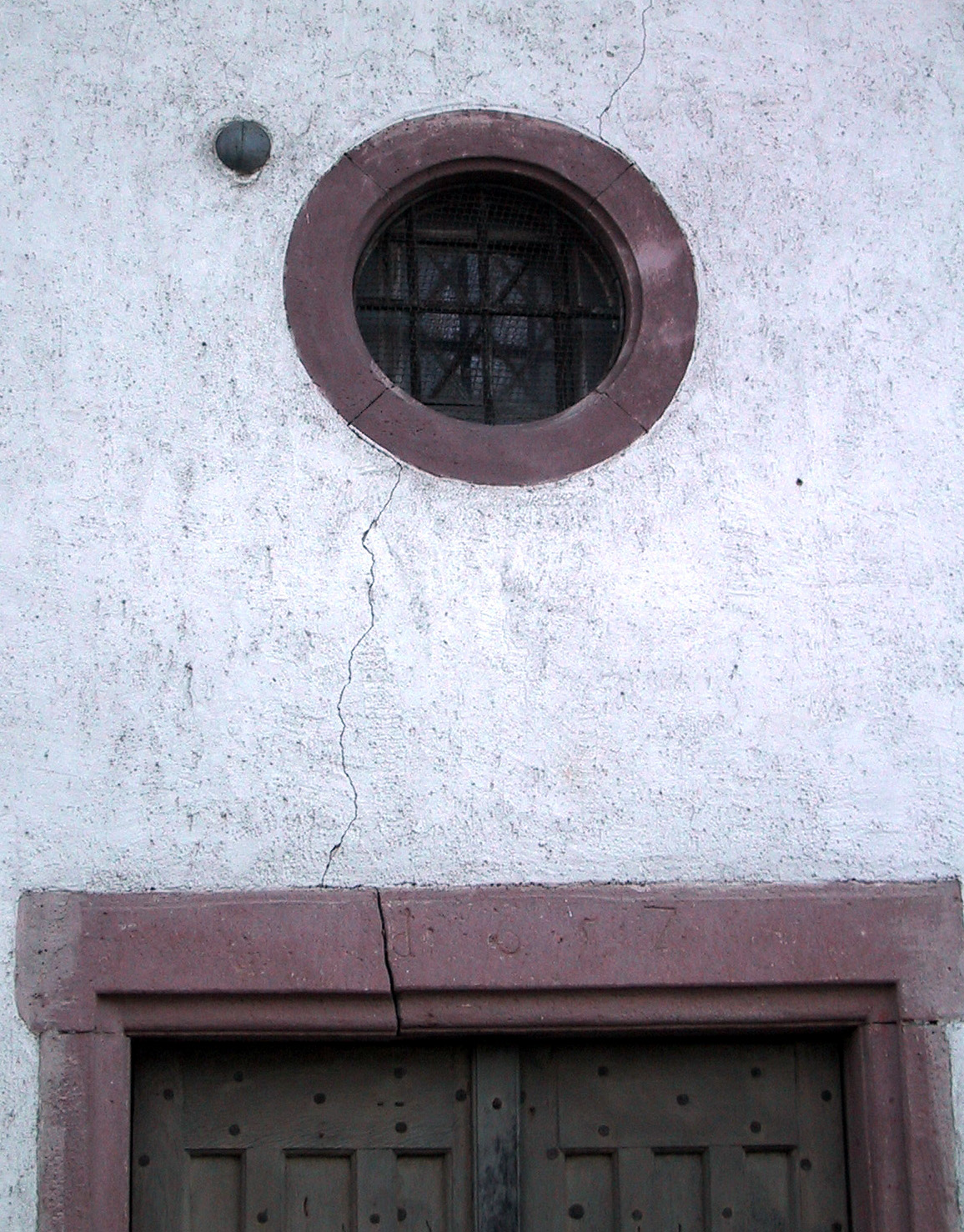 Description: Cannon ball that missed Louis XV during his siege of Freiburg in 1744 stuck in the wall of Loretto's Chapel Source: self-made Date: 28.01.2008 Author: Manfredjohannes